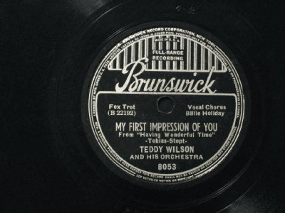 my best impression teddy wilson shellack